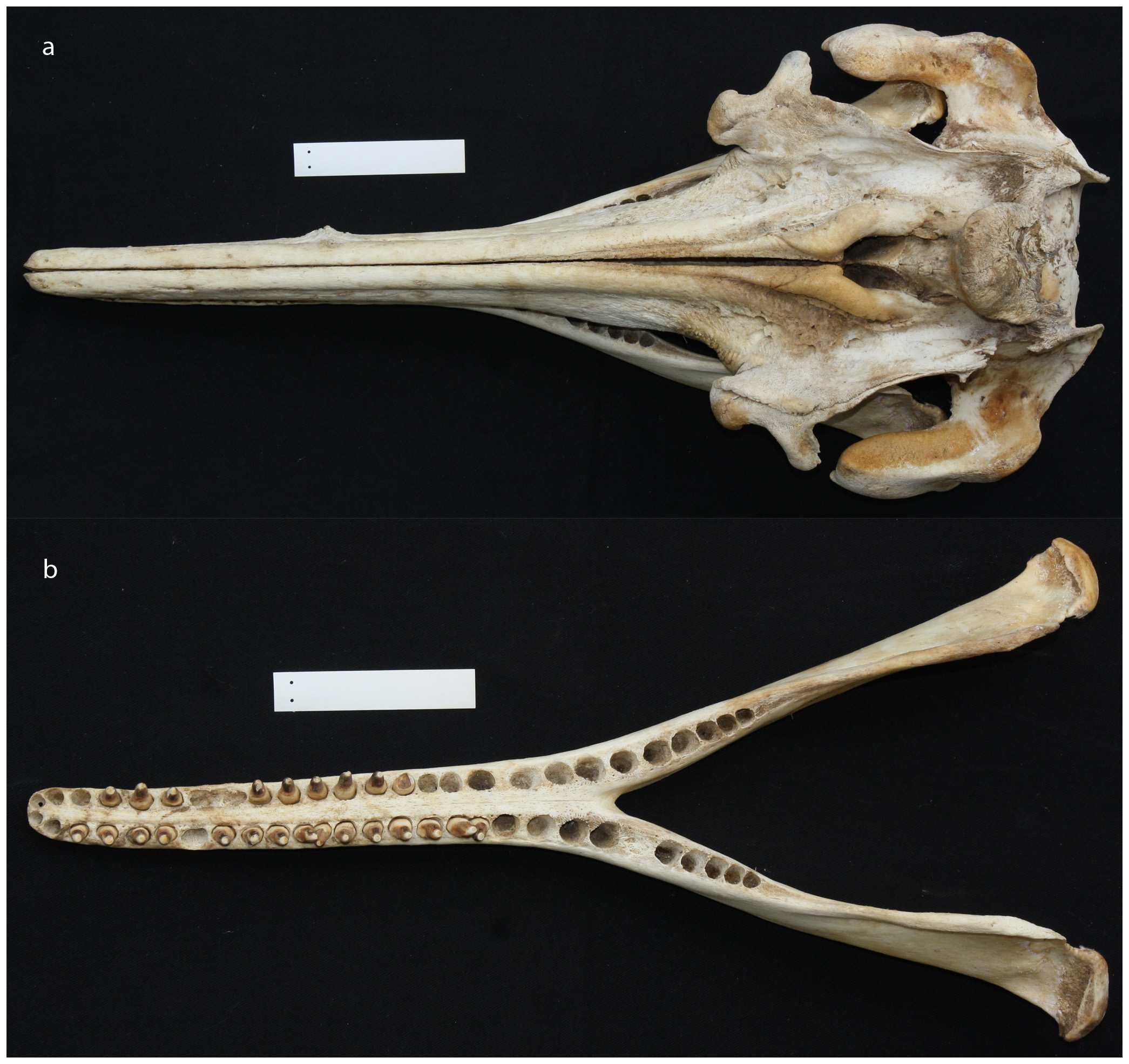 Cranium (a) and mandible (b) of the holotype of Inia araguaiaensis, a South American river dolphin species described in 2014. A 10 cm ruler is shown. The original PLoS ONE image has been modified by conversion from tiff to jpeg format.